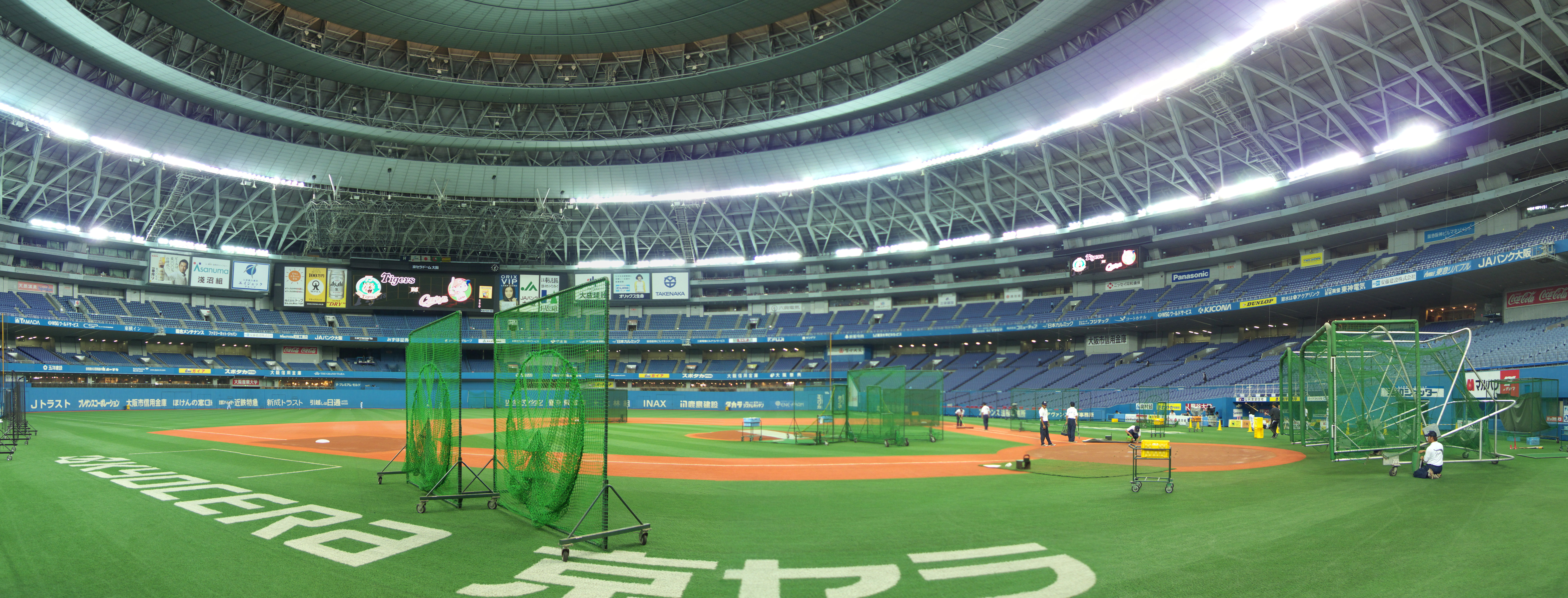 Kyocera Dome Osaka viewed from the ground level